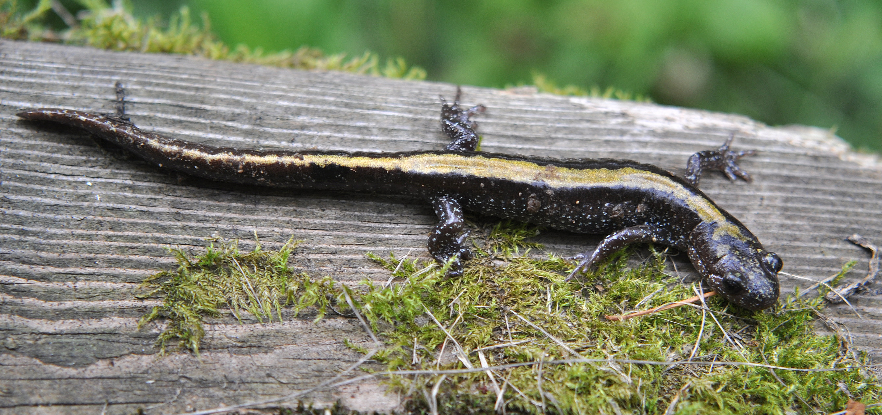 A Long-toed salamander (Ambystoma macrodactylum).